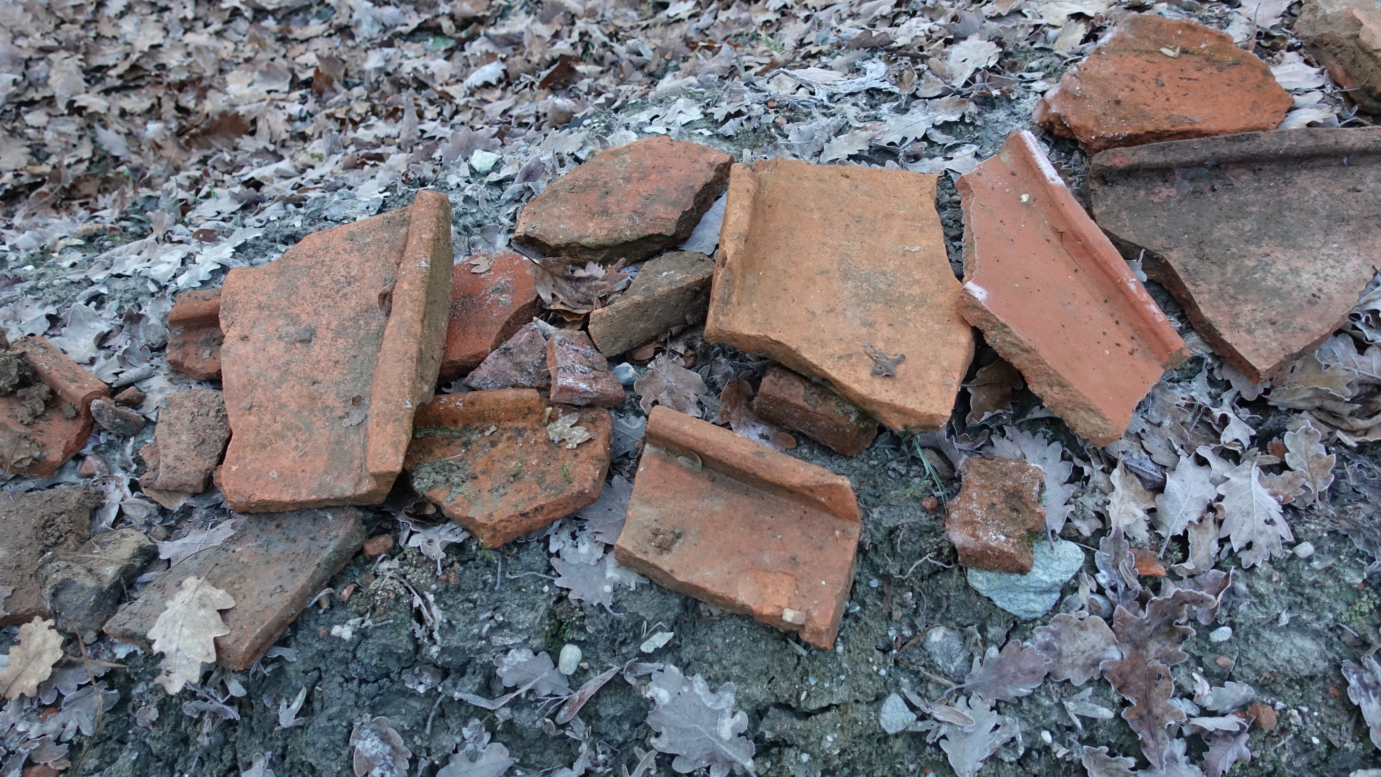 The Roman Tiles Workshop, Chancy, Canton of Geneva. Archeological site.